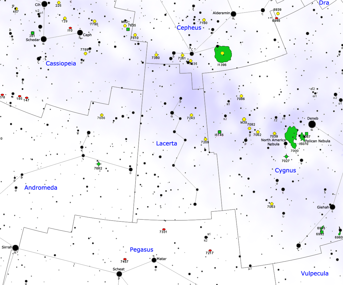 Map of Lacerta